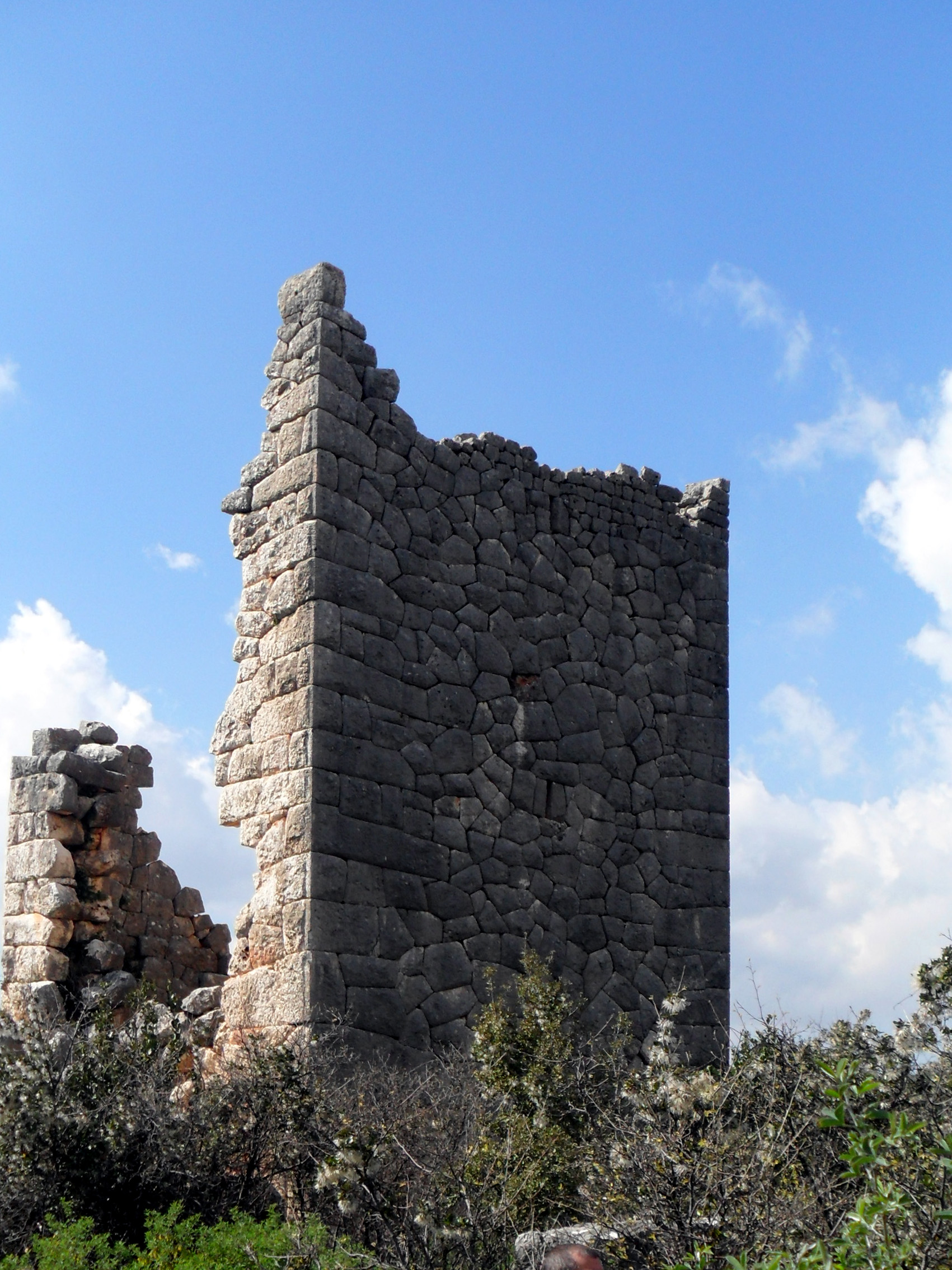 Hellenistic tower, Karaahmatli, Erdemli, Mersin Province, Turkey